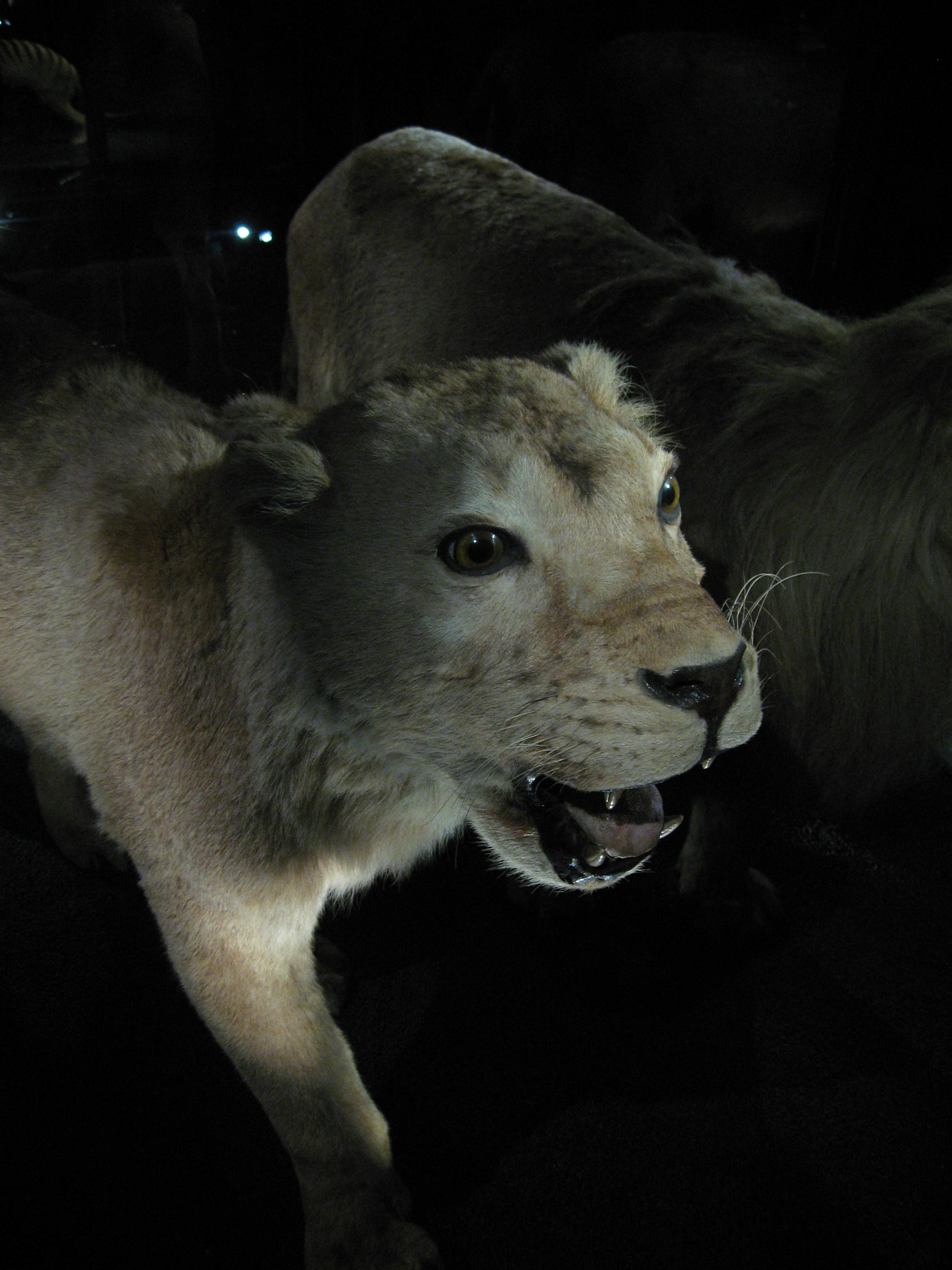 Padded Panthera leo melanochaita (